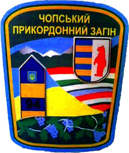 State Border Guard Service Patches of Ukraine